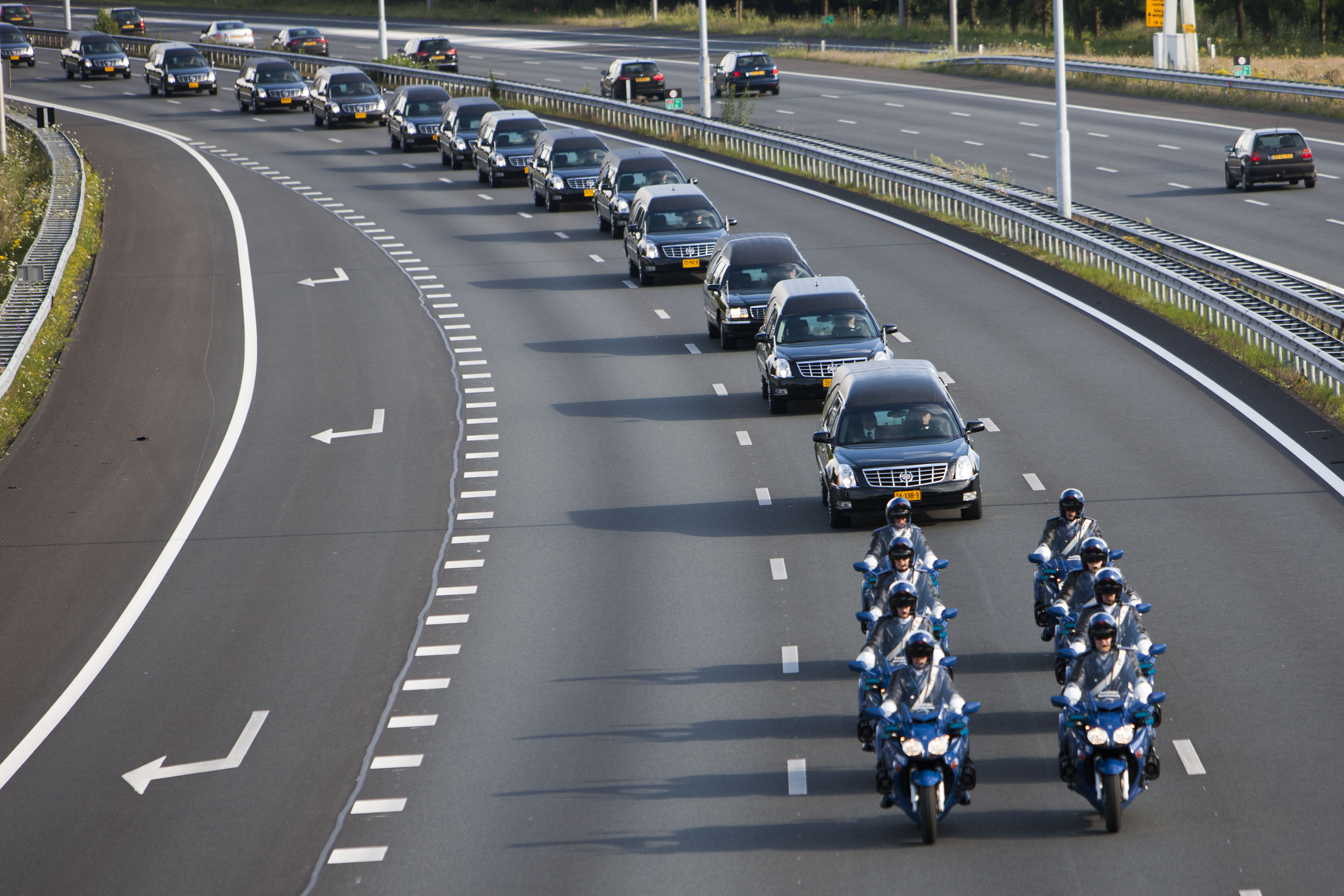 Convoy of cars carrying victims of MH-17